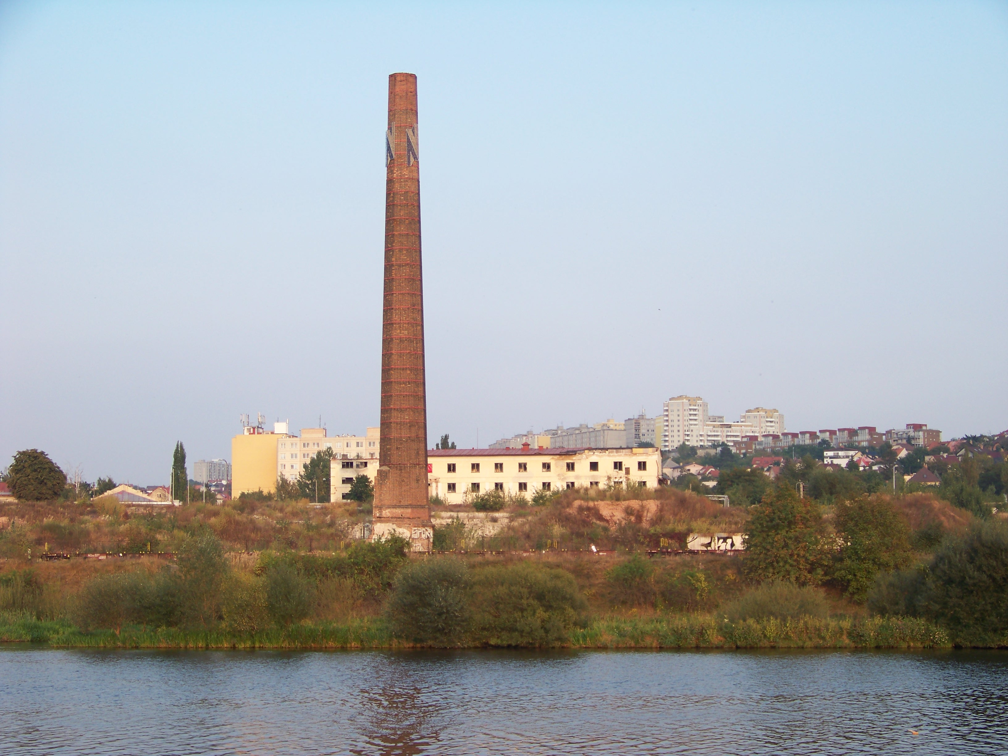 Modřany, Prague, the Czech Republic. Modřany Sugar Refinery.